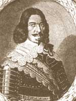 Bernhard, duke of Saxe-Weimar